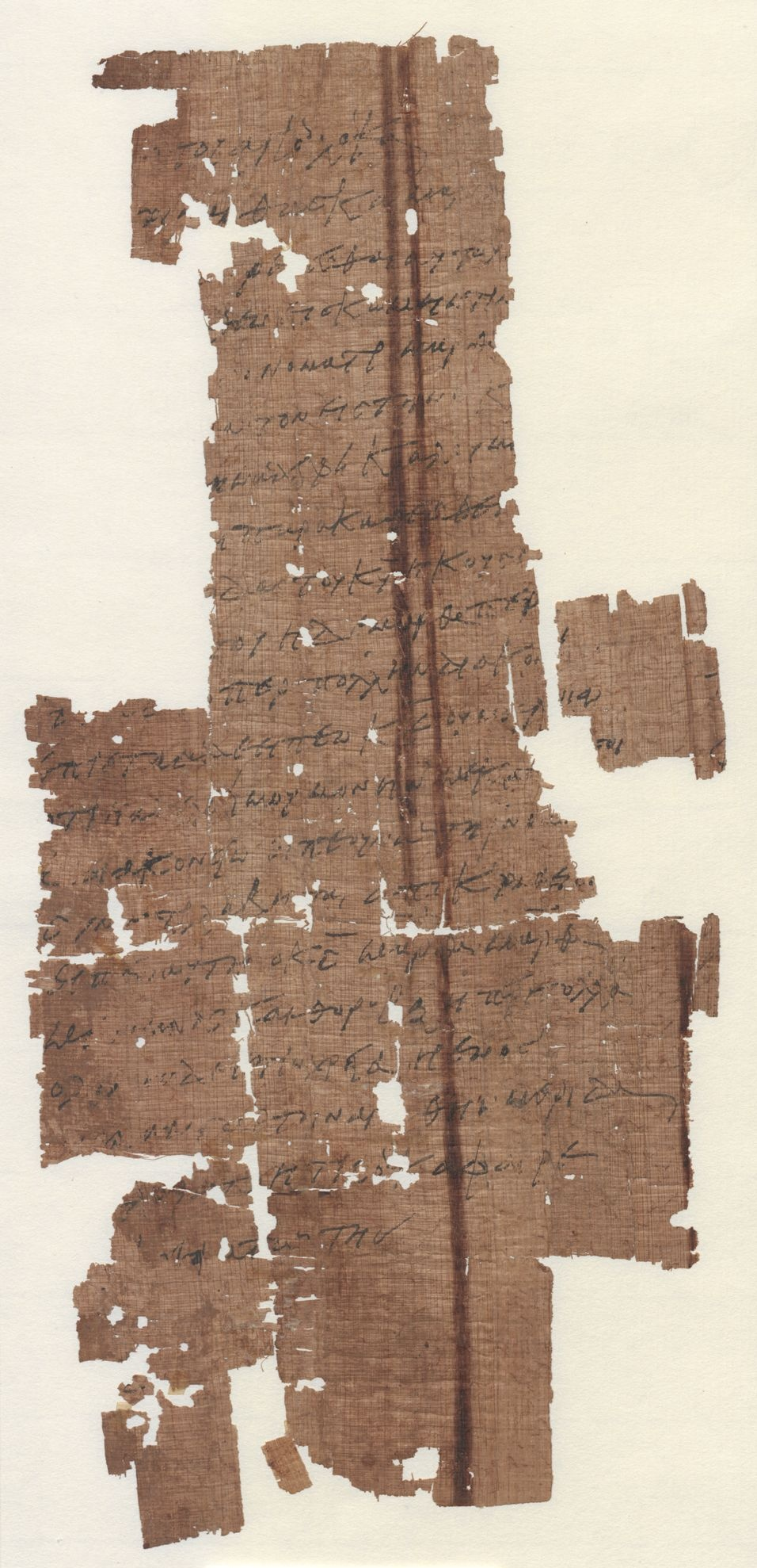 Papyrus 3 - Austrian National Library, P. Vindob. G. 2323 - Gospel of Luke, 7,36–45, 10,38–42 - recto